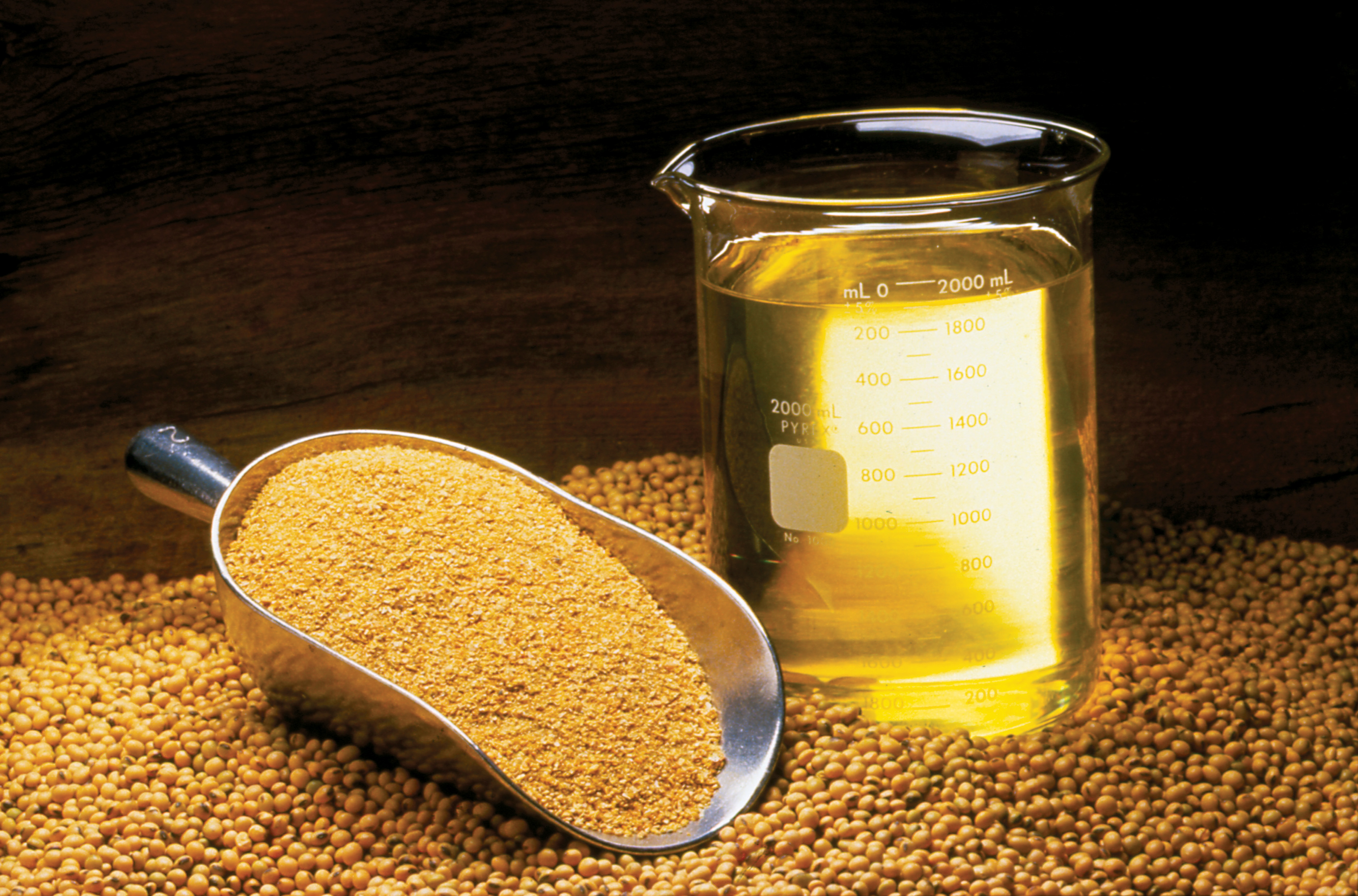 If used, credit must be given to the United Soybean Board or the Soybean Checkoff.